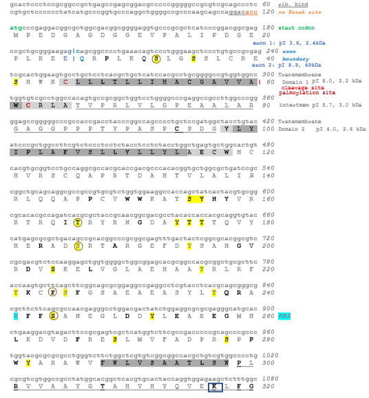 TMEm151A conceptual translation